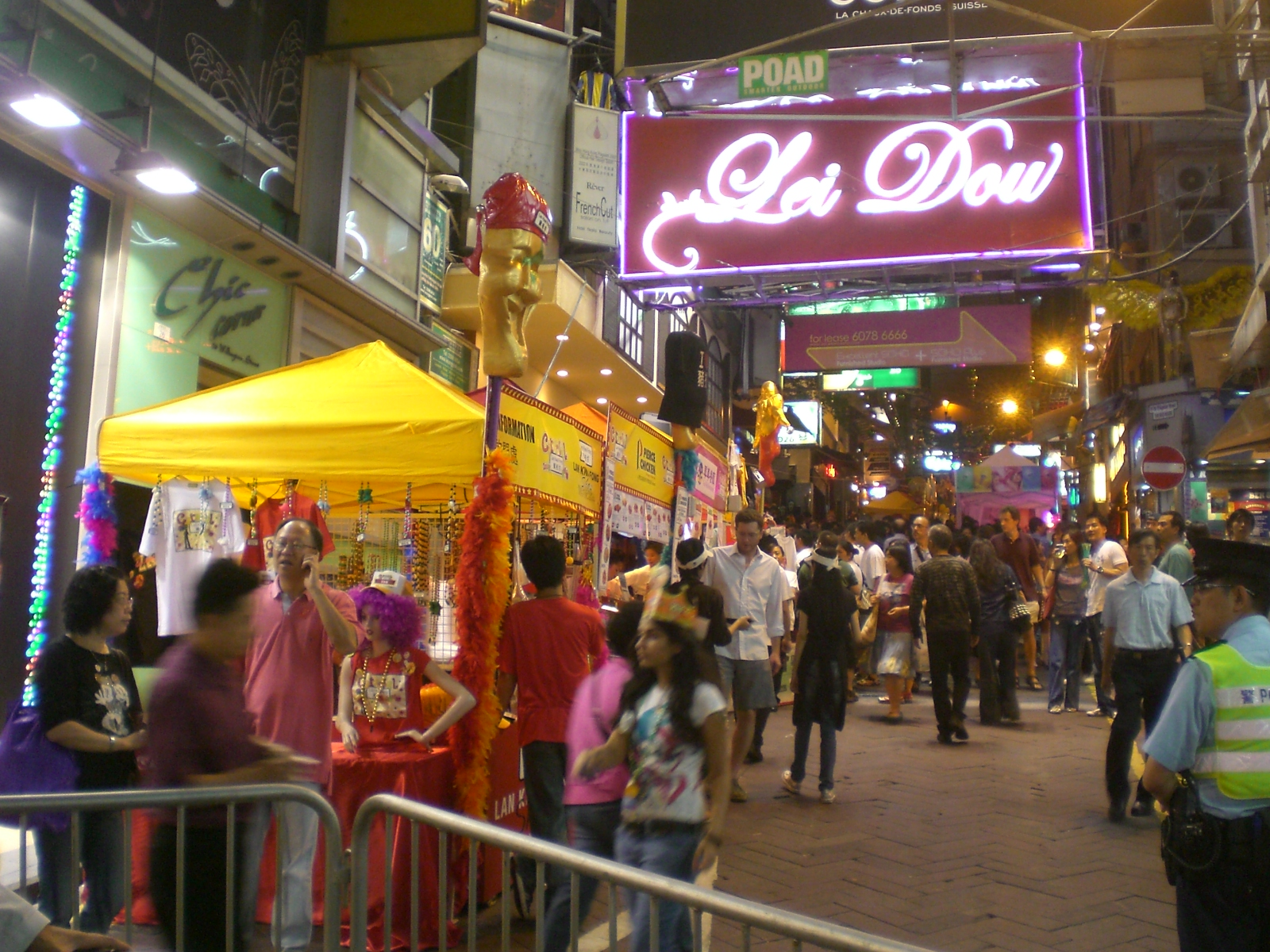 中環zh:蘭桂坊嘉年華 2008年